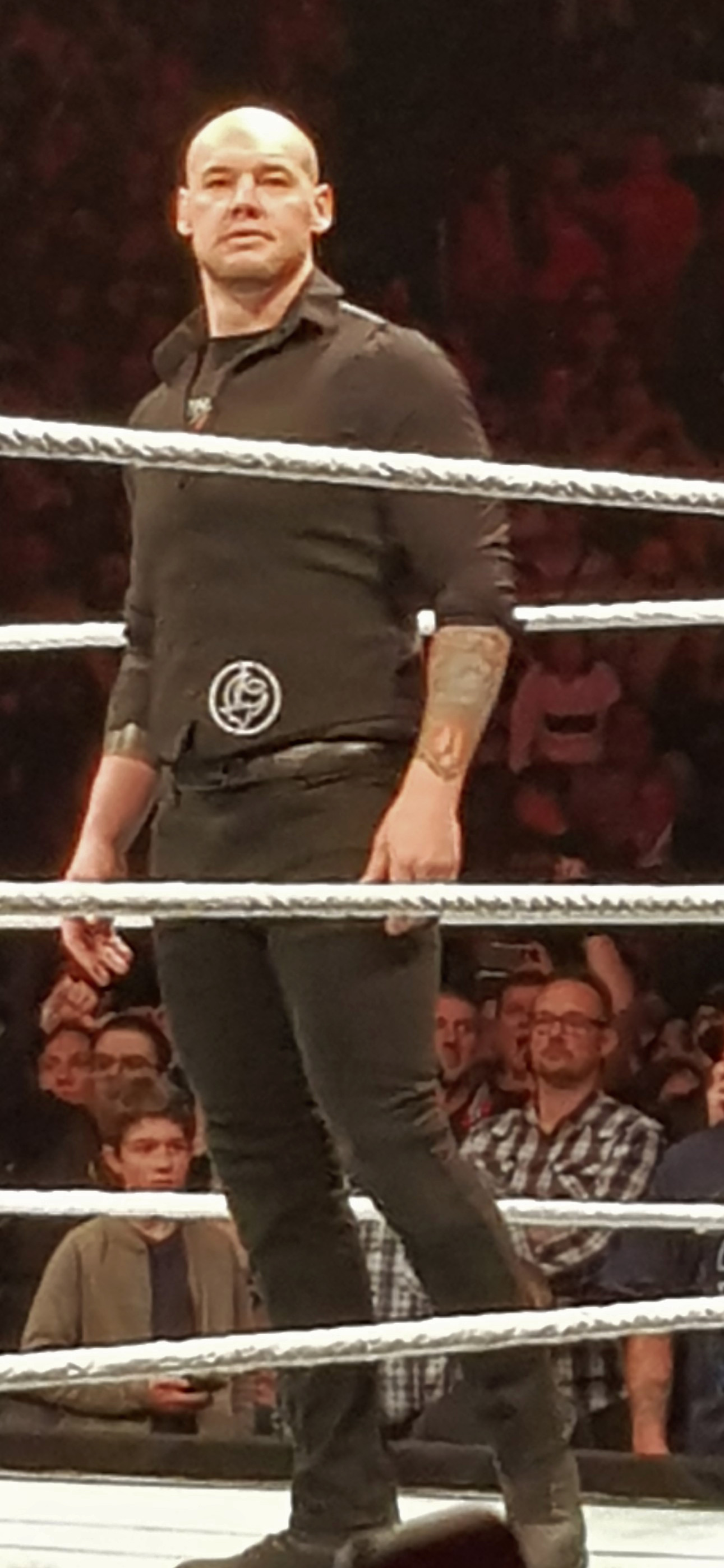 WWE Live 2019 - Forest National WWE Live 2019 - Forest National